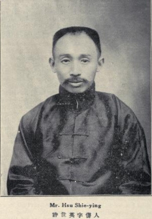 Xu Shiying (Hsu Shih-ying), Junren (1873 - 1964)